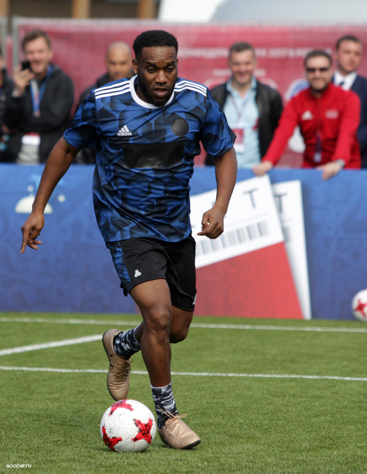 Jay-Jay Okocha